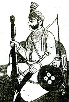 Chhatrasal, Raja of Bundelkhand